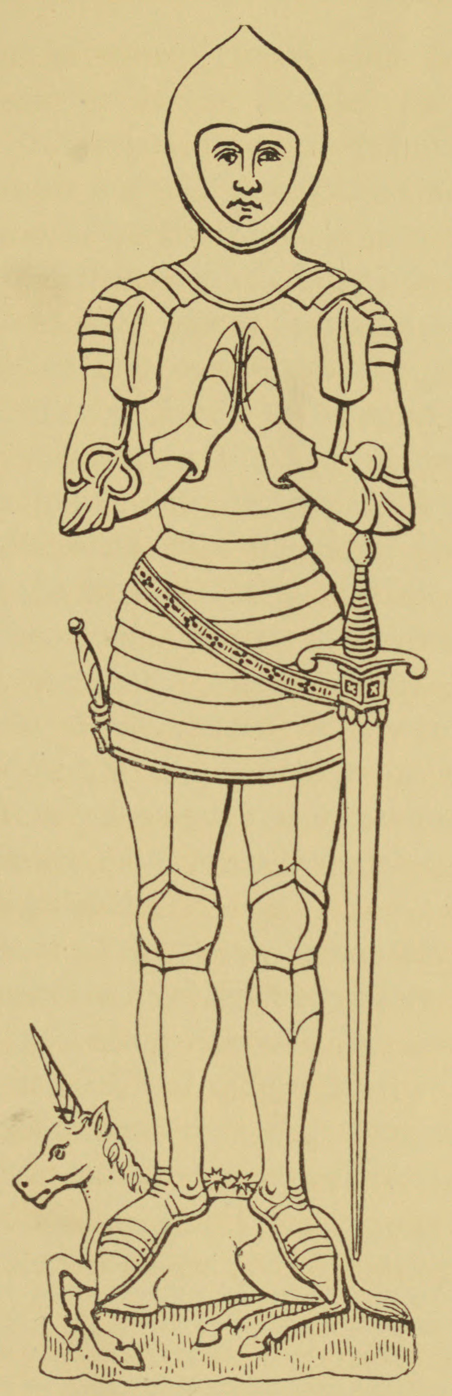 Memorial brass of Thomas Chaucer in Ewelme Church, Oxfordshire, printed by G. Fisher